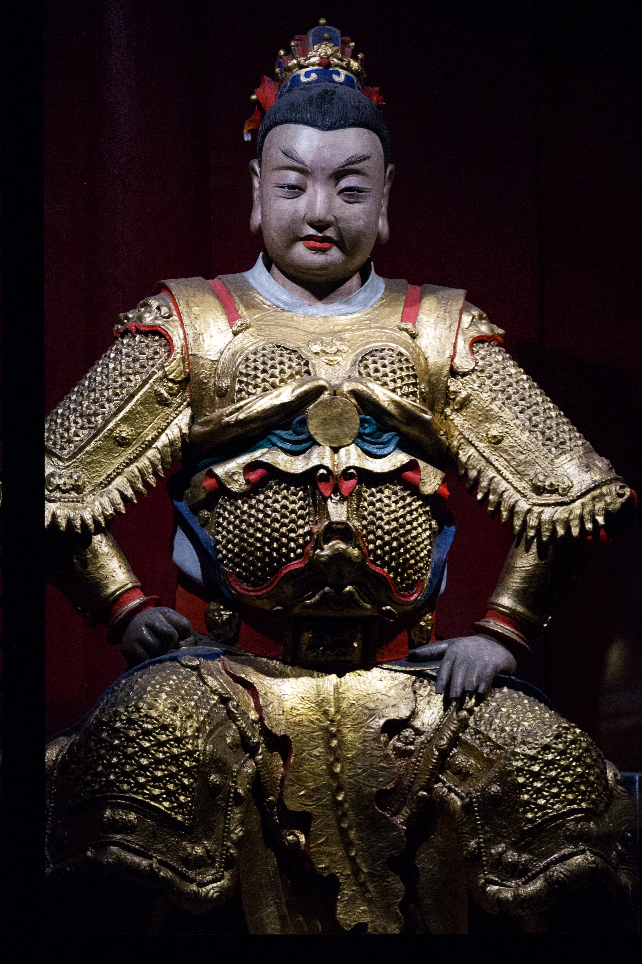 Zhuge Shang (諸葛尚)